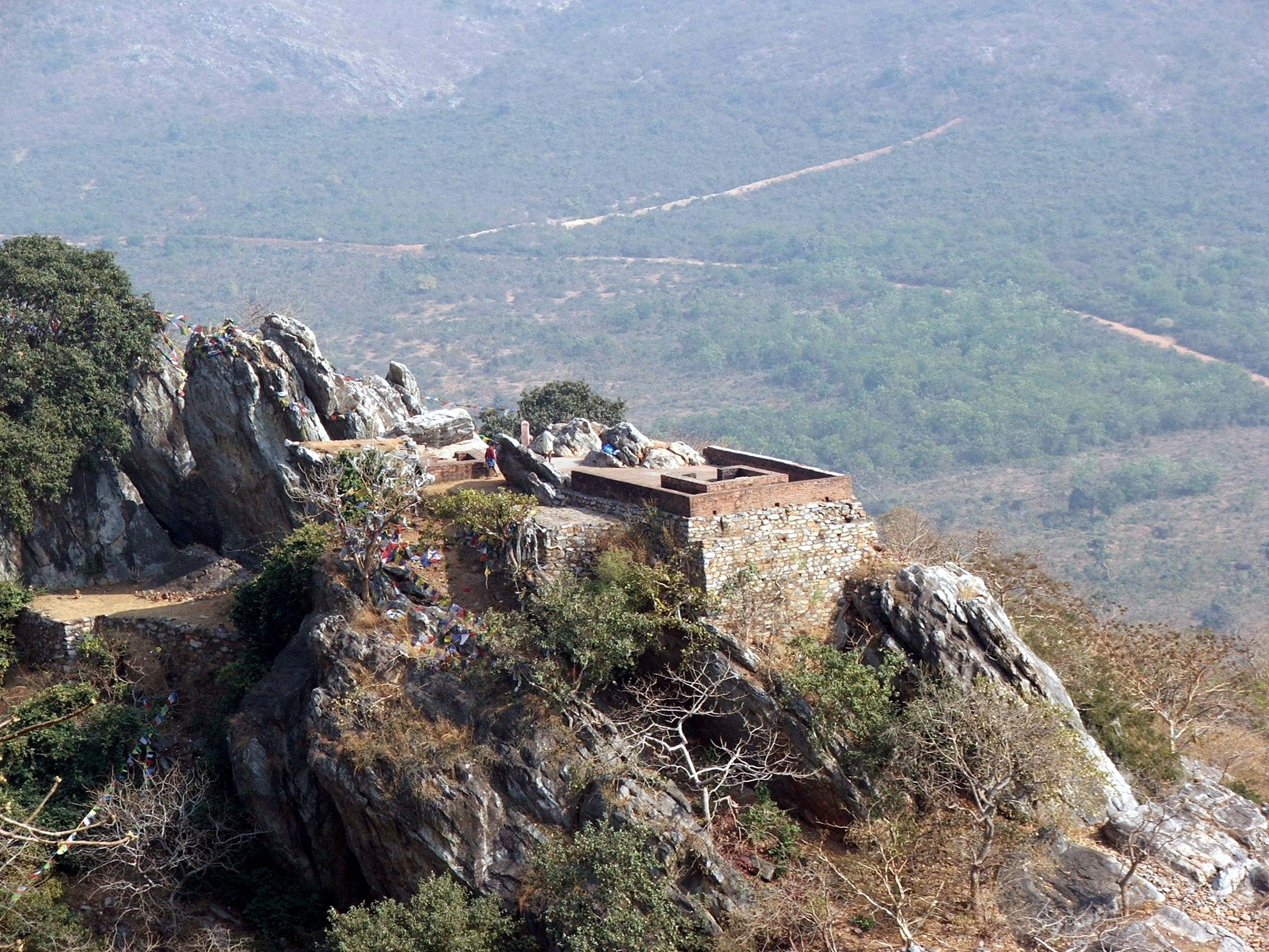 Vulture Peak, Rajgir, India. The small structure (small room) designates the place where Buddha used to stay when living on Vulture Peak. This picture was taken from another, nearby mountain. The valley is where the outskirts of the old city of Rajagaha used to be.